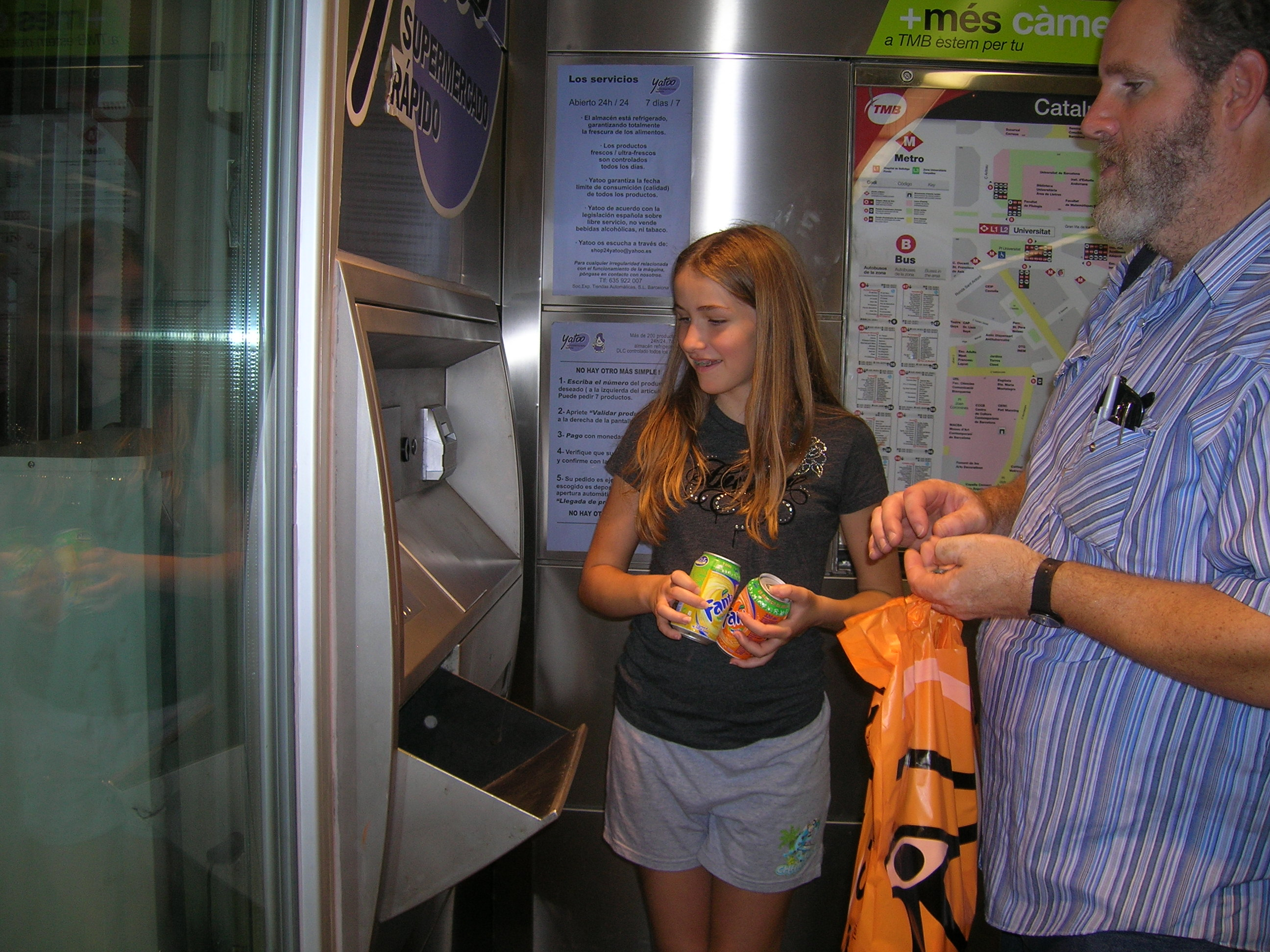 An amazing automated grocery store in the Barcelona Metro (Spain).